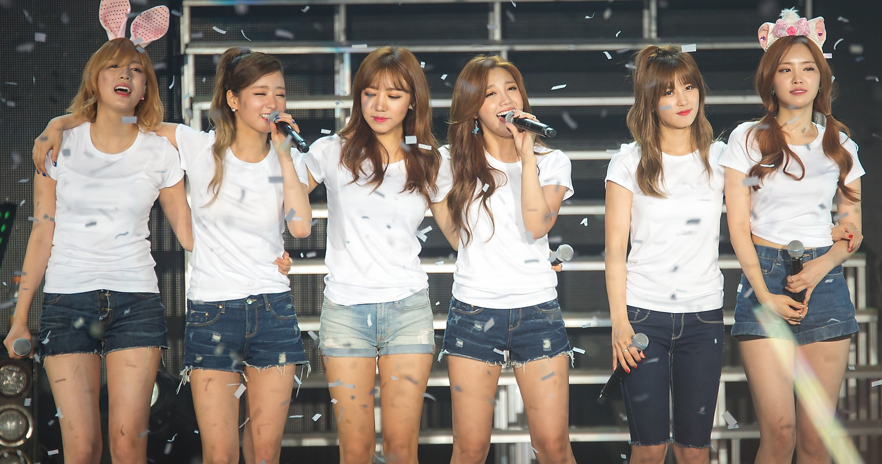 Apink at Pink Paradise concert, 30 May 2015. Left to right: Ha-young, Bo-mi, Nam-joo, Eun-ji, Cho-rong and Na-eun